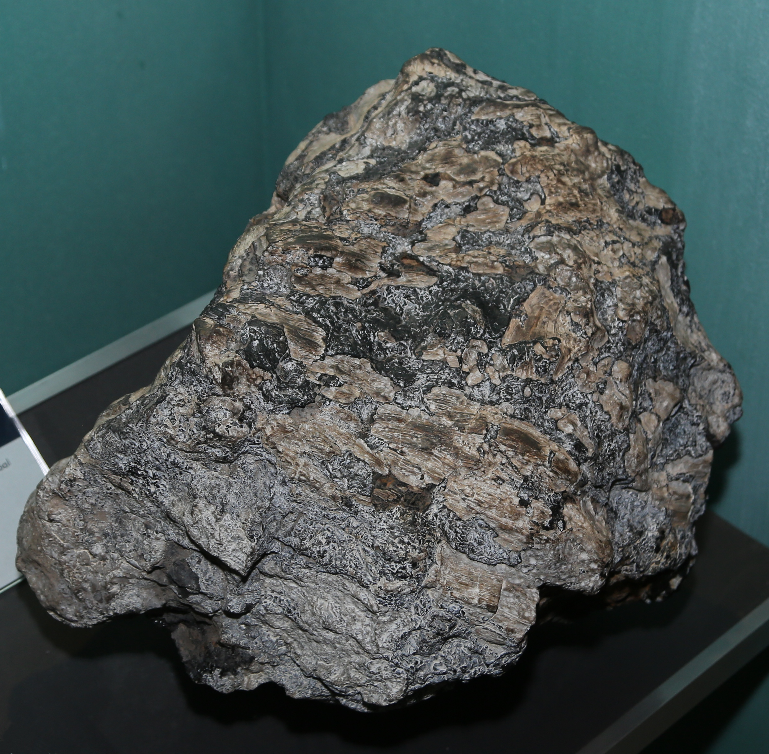 Photo of a large coal ball from southern Illinois now in National Museum Cardiff